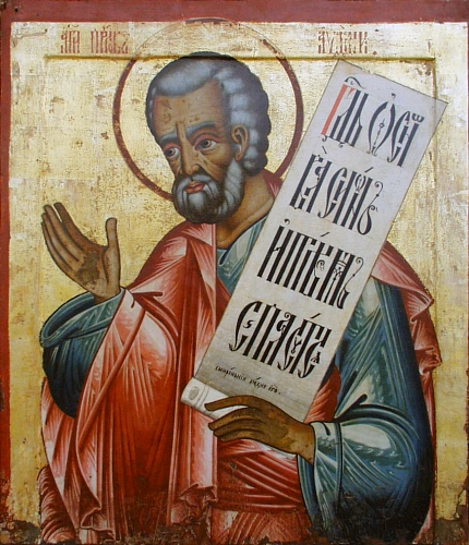 Obadiah the prophet (Овдий in Russian), Russian icon from first quarter of 18th cen.